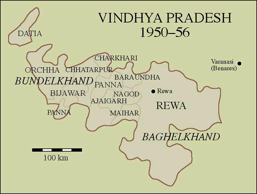 Map of the former Indian state of Vindhya Pradesh